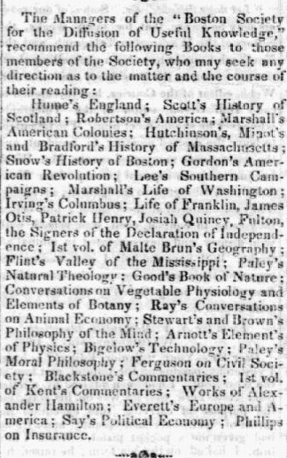 Newspaper item related to the Boston_Society_for_the_Diffusion_of_Useful_Knowledge